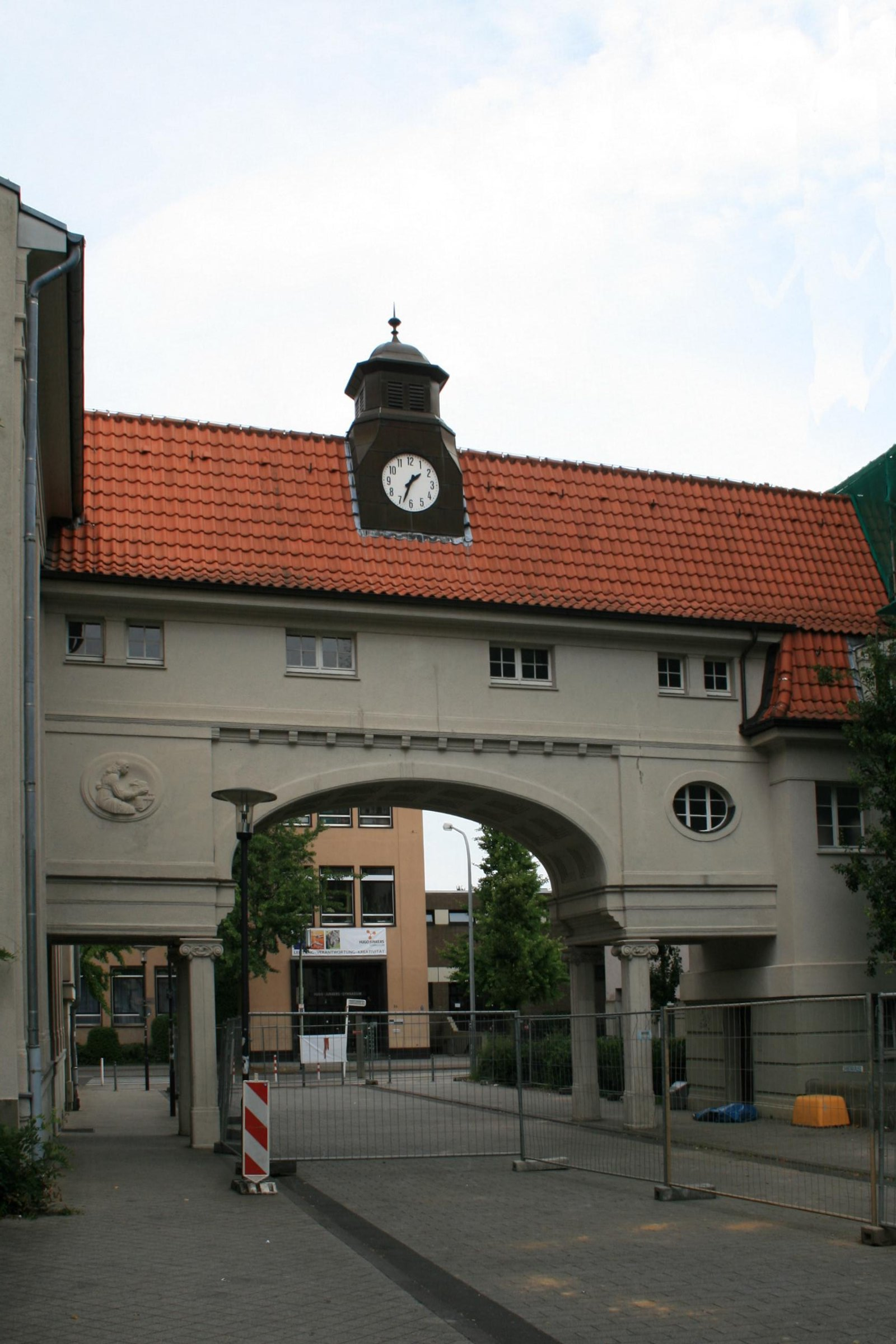 Cultural heritage monument No. W 012 in Mönchengladbach